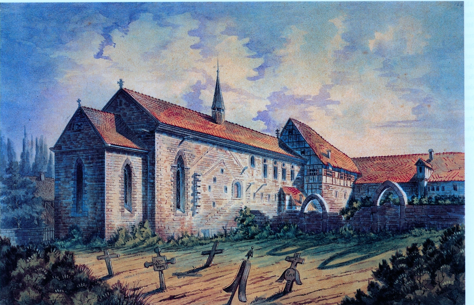 siehe oben